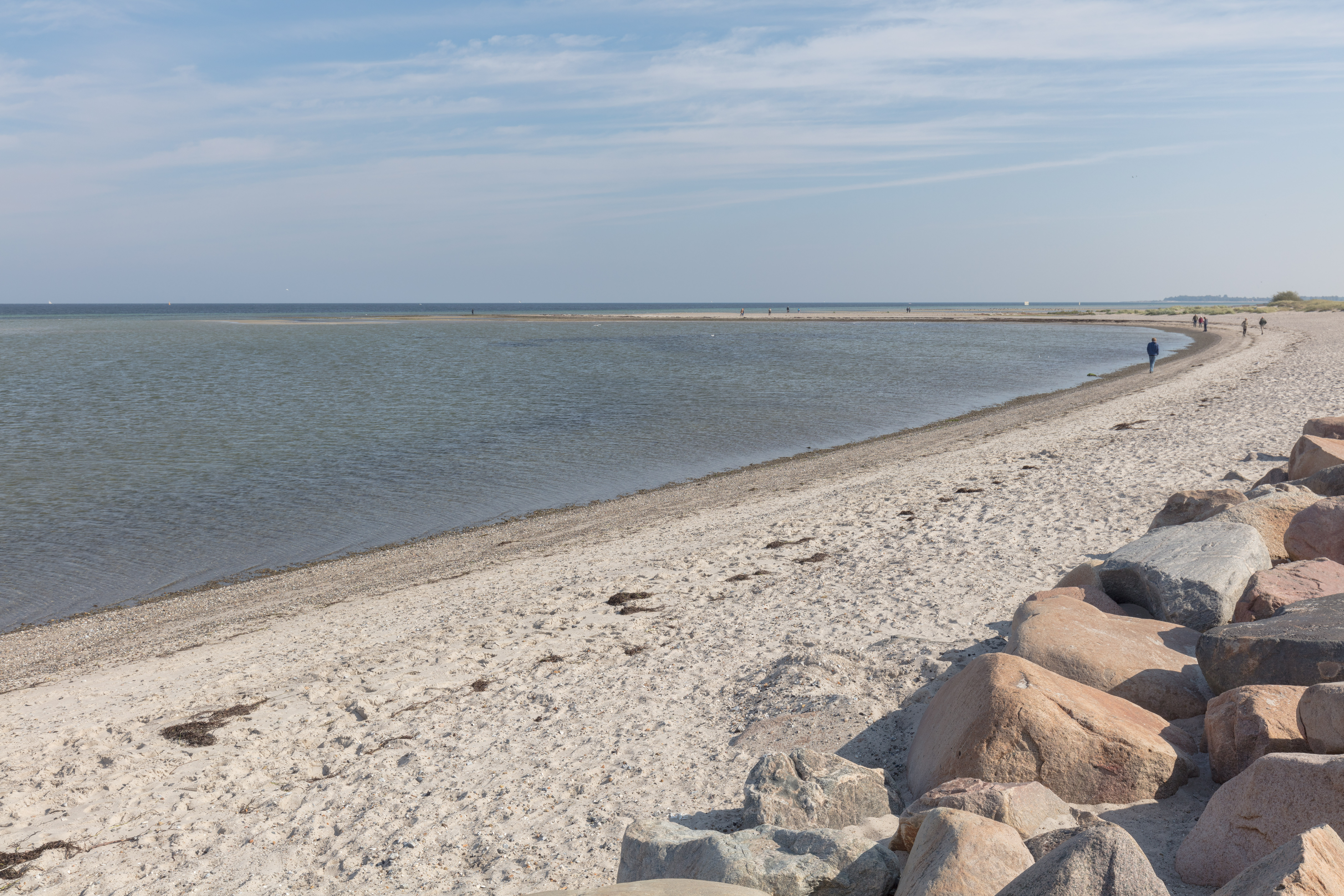 Laboe Beach, Kiel, Germany